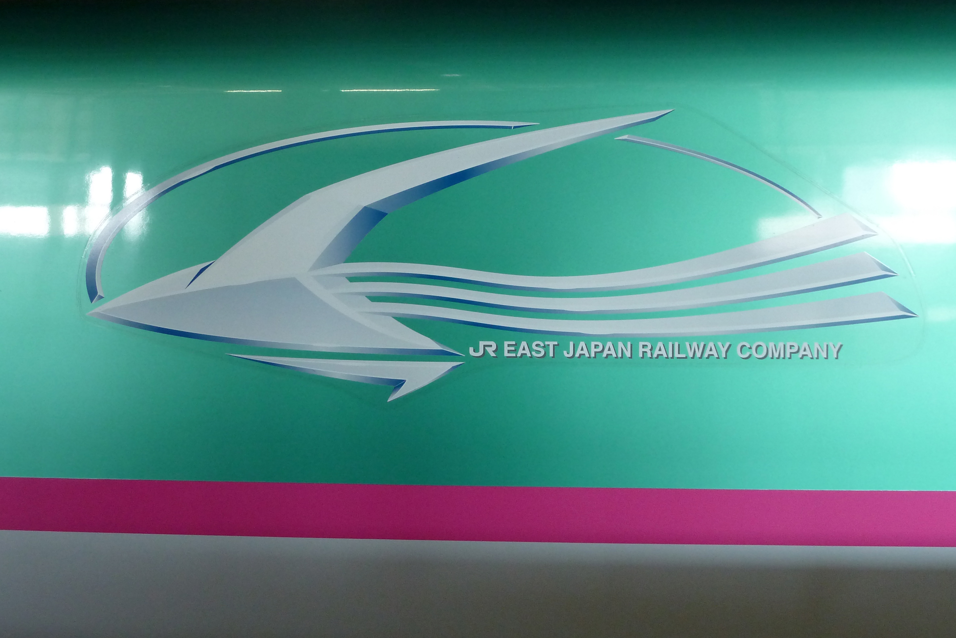 "Hayabusa" logo on the side of a JR East E5 series shinkansen train